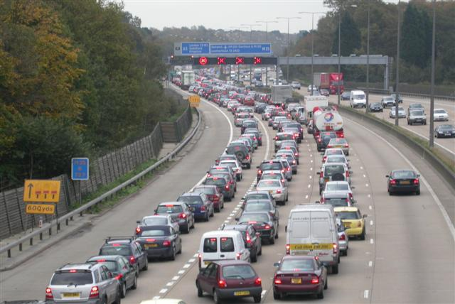 Bad day on the M25. M25 closed between J10 & J8 for much of the day, so the tailbacks approaching J10 anticlockwise are a bit horrendous.